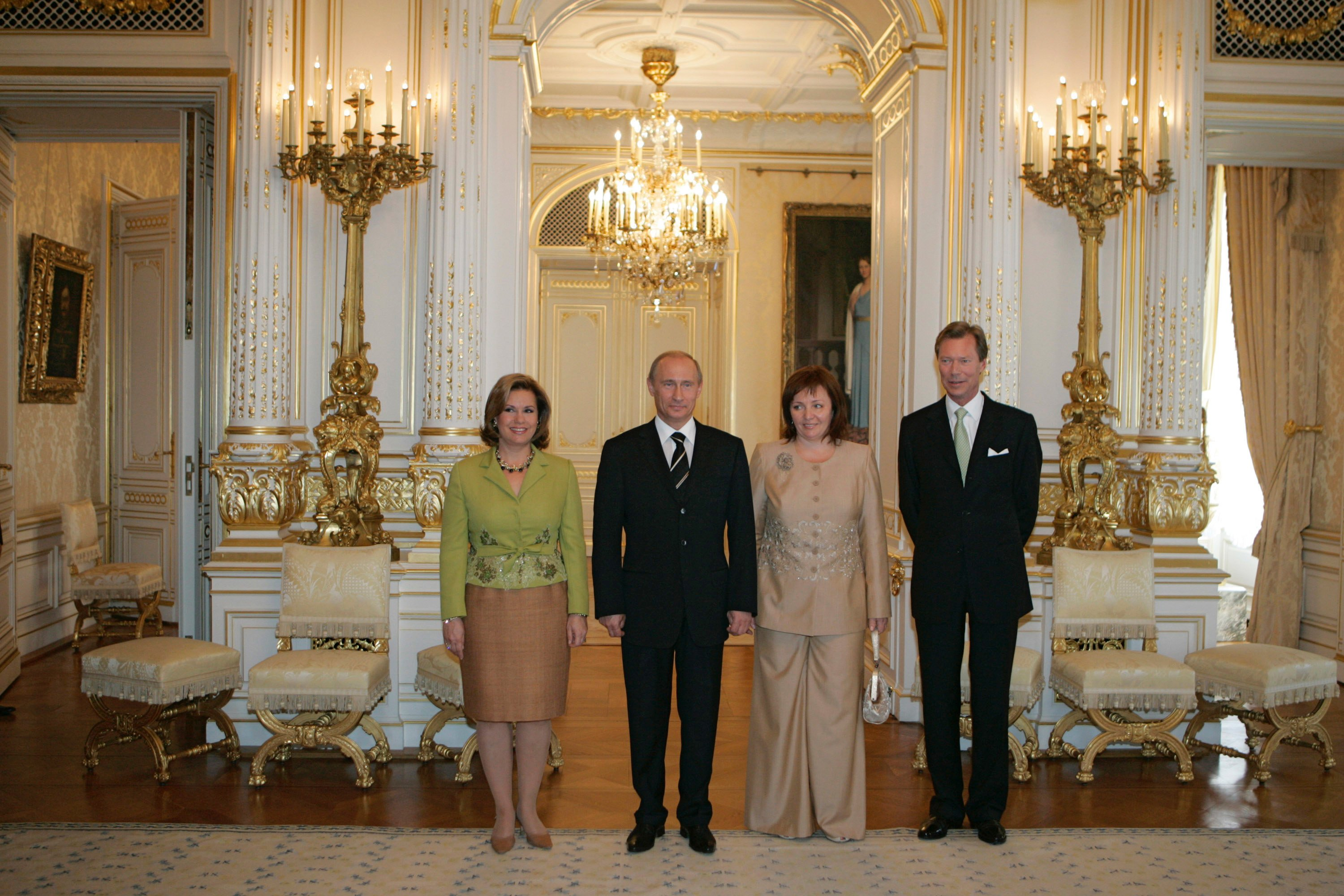 LUXEMBOURG. Joint photo session with Grand Duke Henri of Luxembourg and Grand Duchess Maria Theresa.